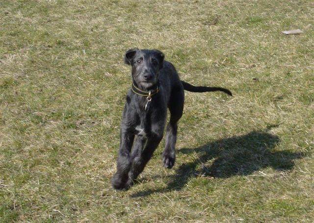 The puppy of deerhound - Haron from the kennel Festina, the owner is Hanna Woźna - Gil, Poland